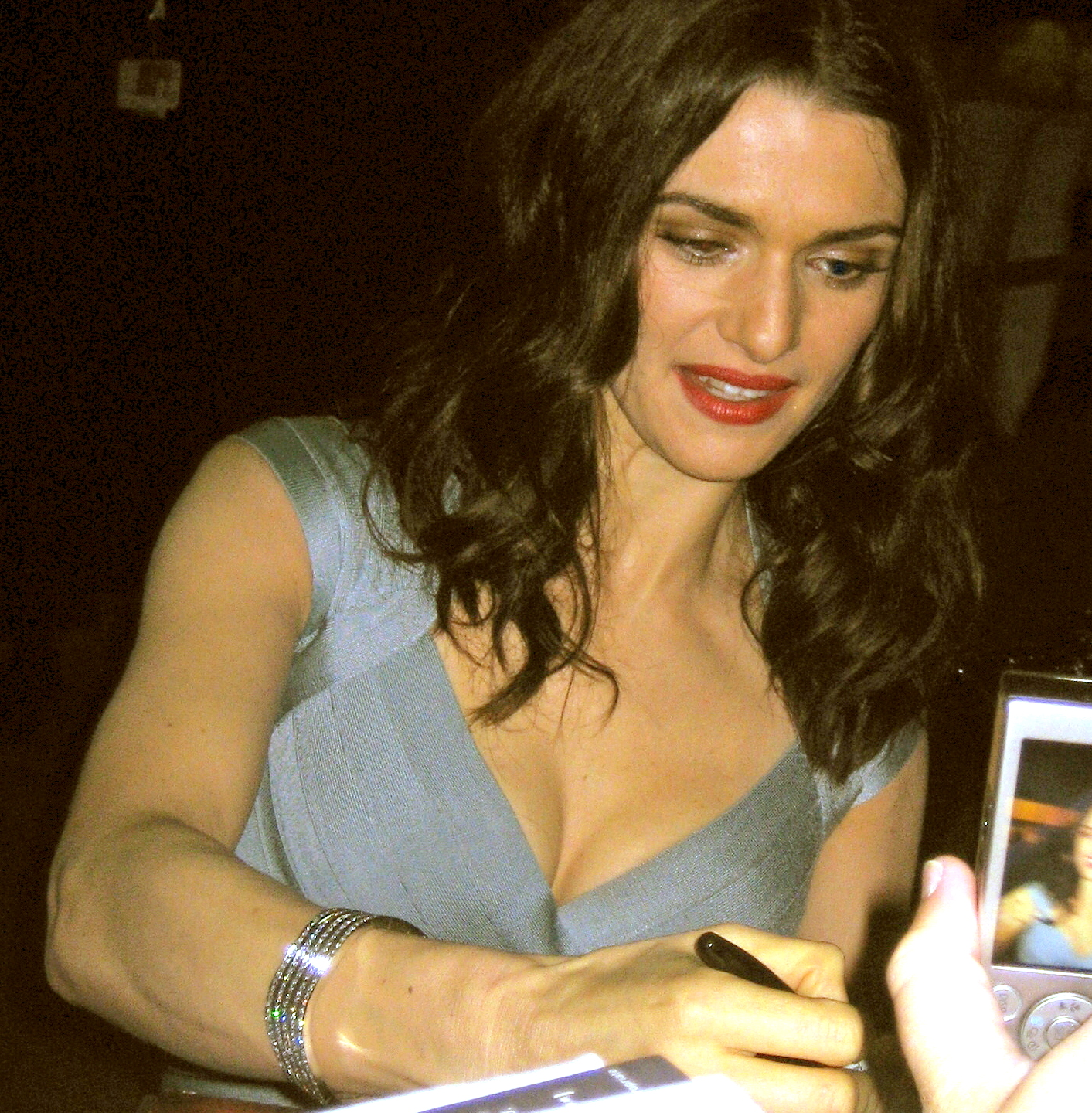 Rachel Weisz at the Toronto International Film Festival 2008.